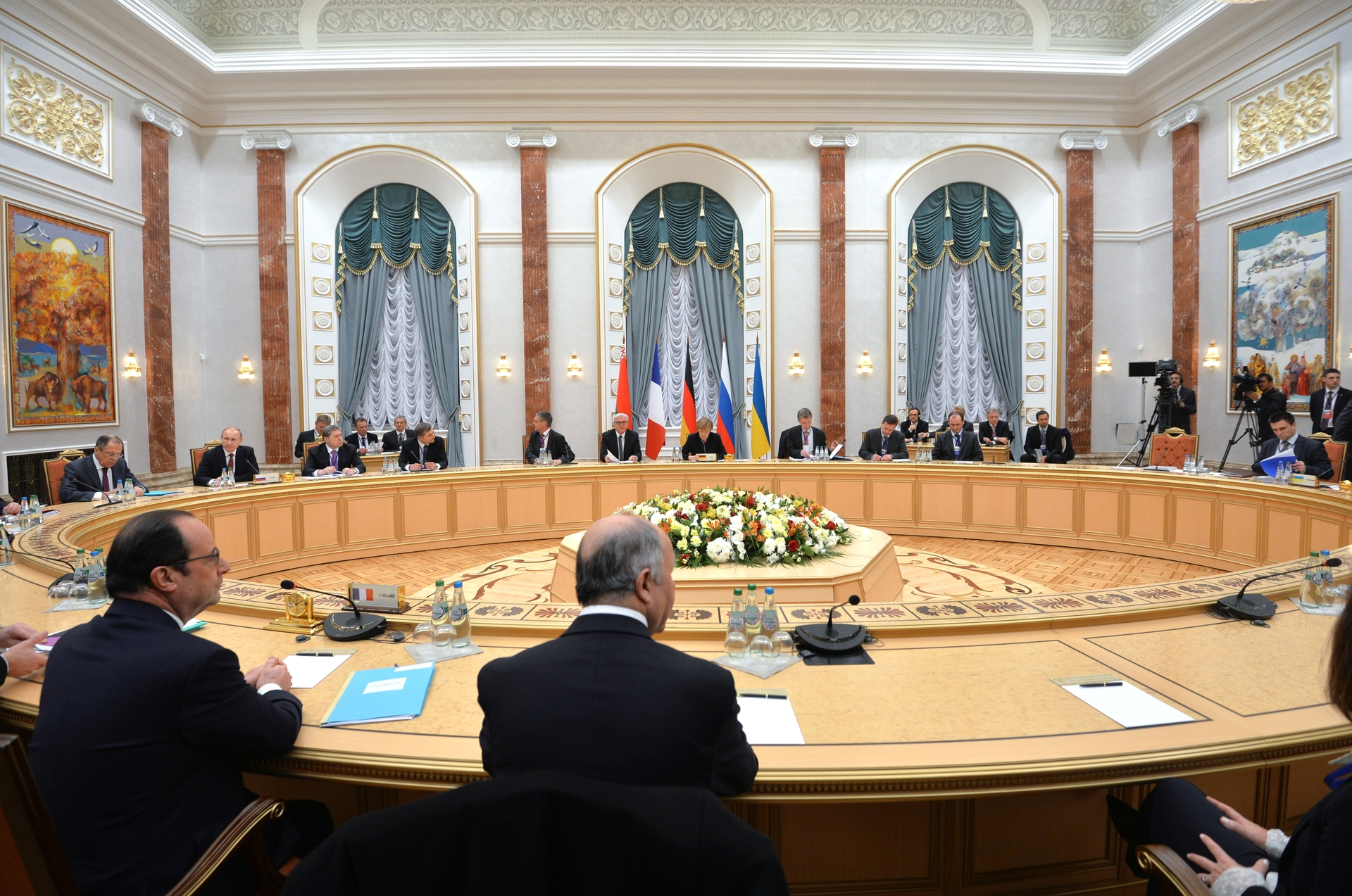 Normandy format talks in Minsk (February 2015): Angela Merkel, Francois Hollande, Petro Poroshenko and Vladimir Putin are take part in the talks on a settlement to the situation in Ukraine.